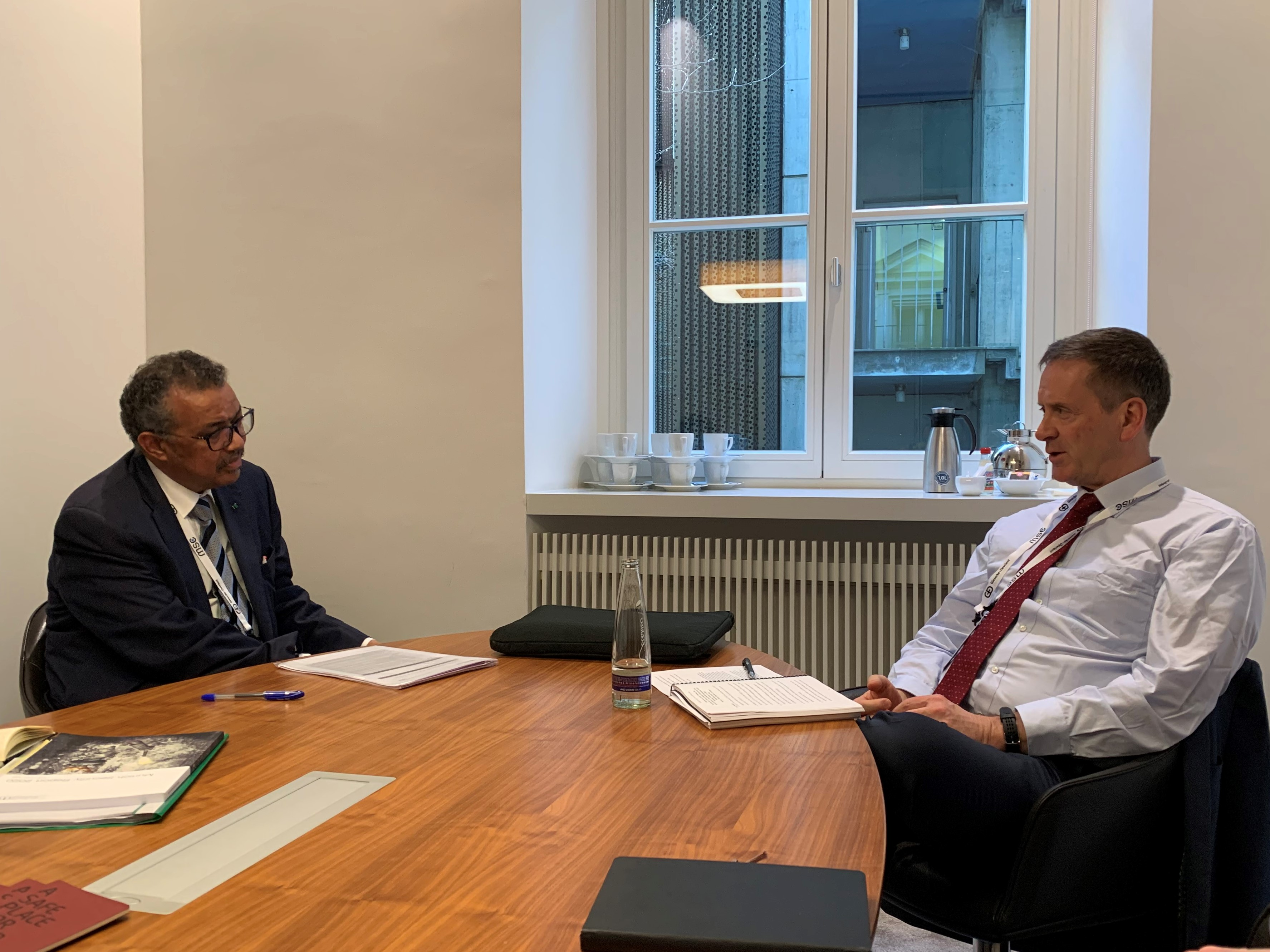 Great to get together with @DrTedros of the @WHO again to discuss our joint global health objectives pertaining to #Ebola, #Coronavirus, and more. @USAIDGH @USAID